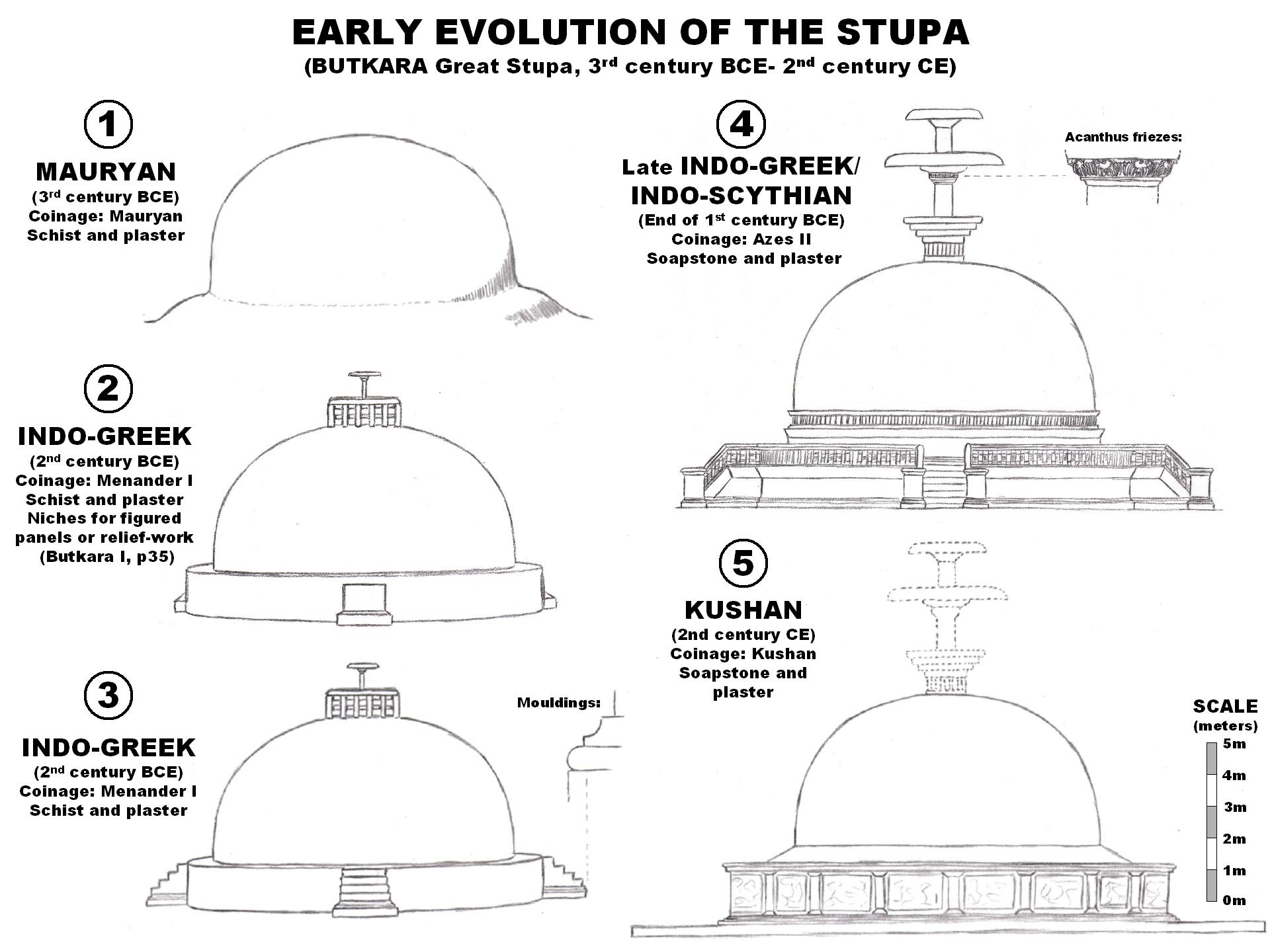 Evolution of the Butkara Stupa. Reference: Domenico Faccenna, "Butkara I, Swat Pakistan, 1956-1962), Part I, IsMEO, ROME 1980. Own drawings, own work.